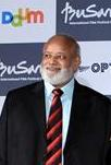 Nusrat Imrose Tisha along with Television film actor and director at 17th Busan International Film Festival